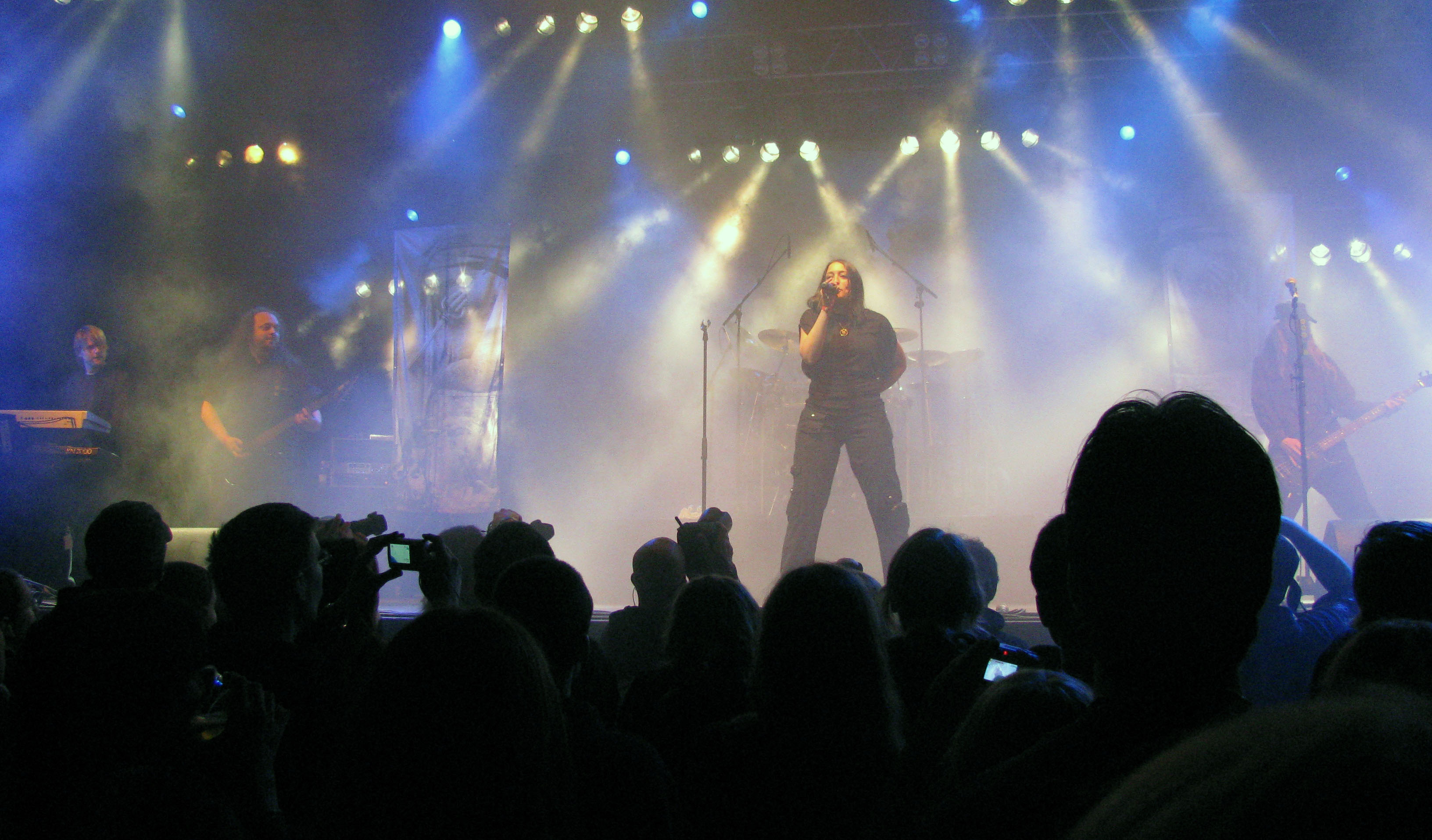 Lunatica at Rocksound-Festival 2008